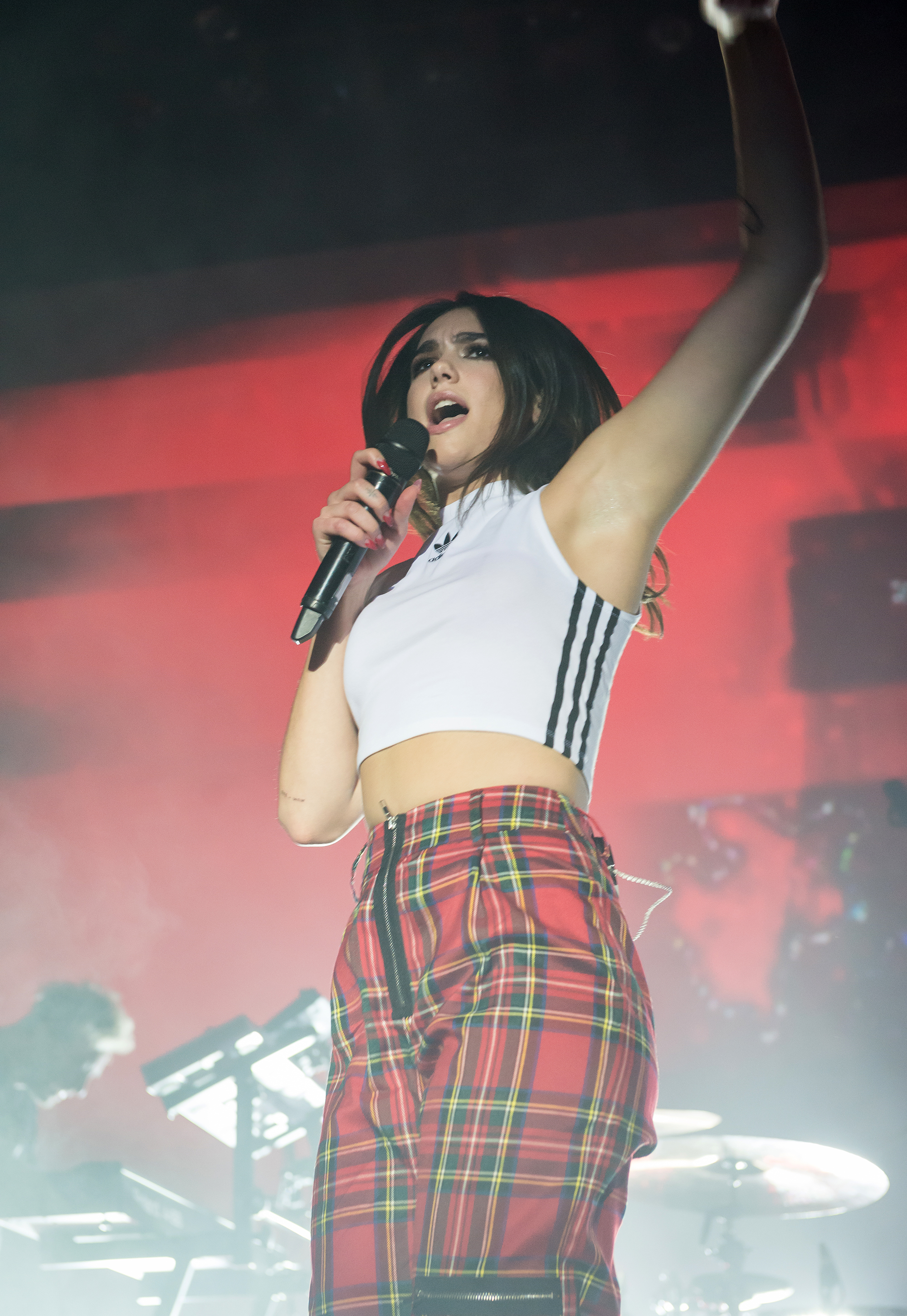 Dua Lipa performing live at The Palladium in Hollywood, Los Angeles, California, on Thursday, February 8, 2018. The first of two sold out nights at this venue on Dua's "Self-Titled" Tour. Shot for Live Nation's Ones To Watch.